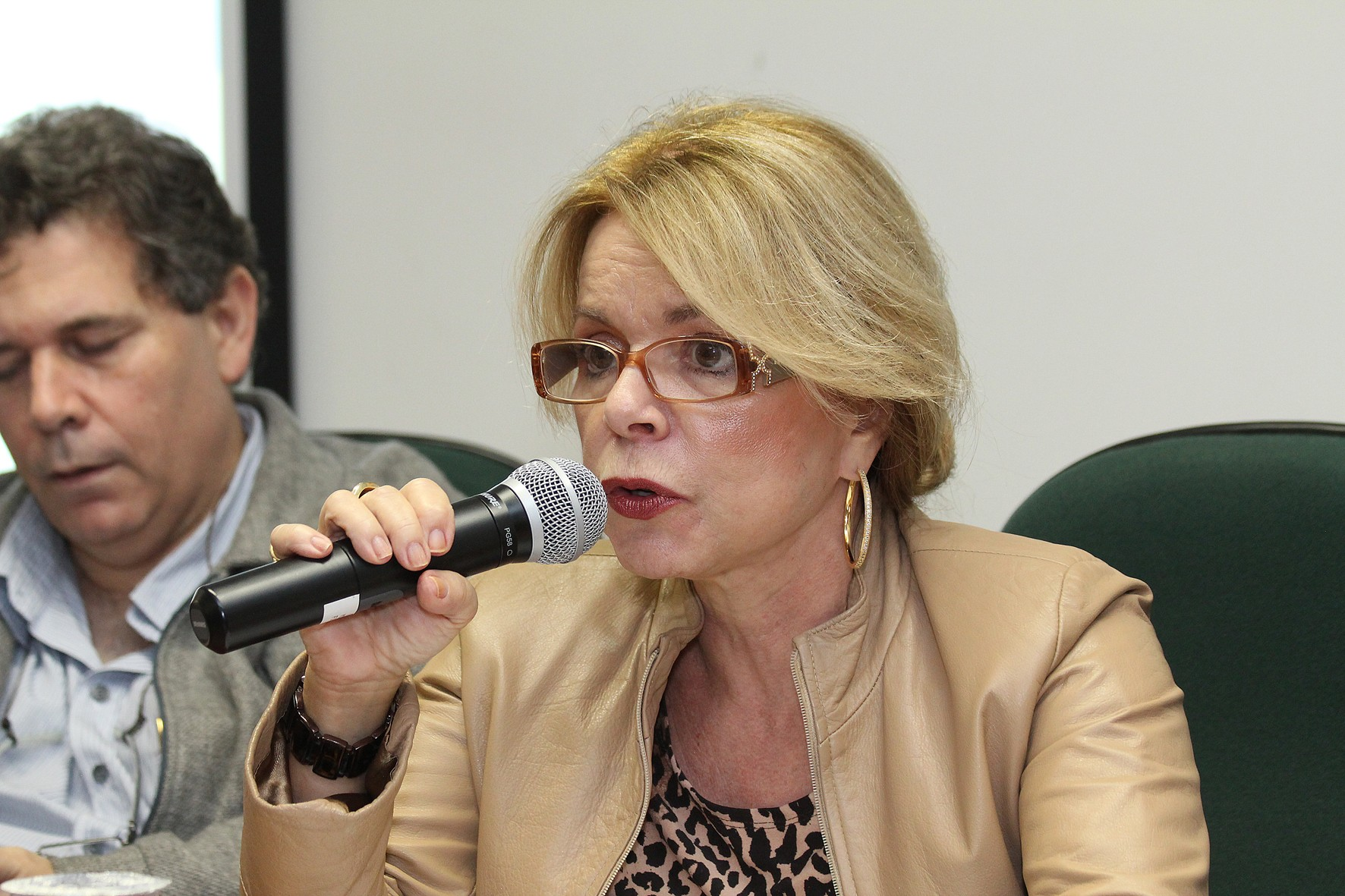 Professor Maria Arminda do Nascimento Arruda of the University of São Paulo (USP).